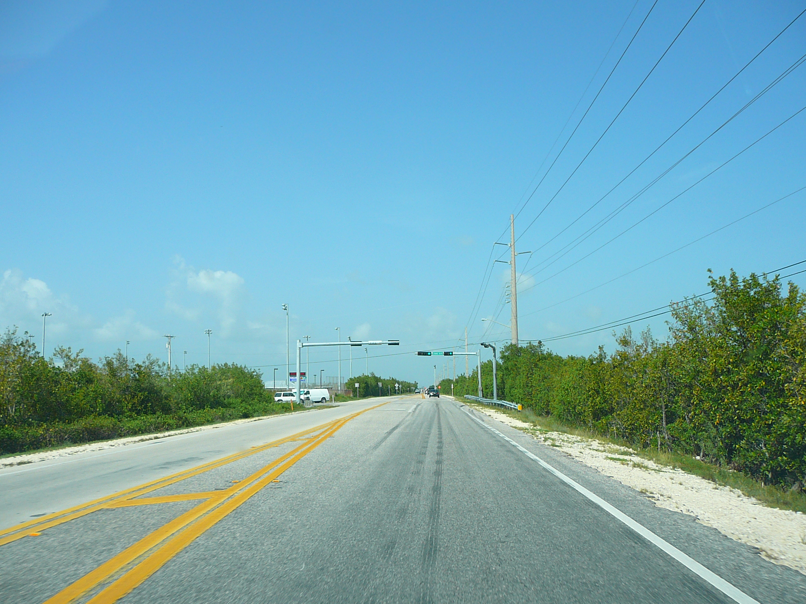 Digital photo taken by Marc Averette. Sugarloaf Key in the Florida Keys